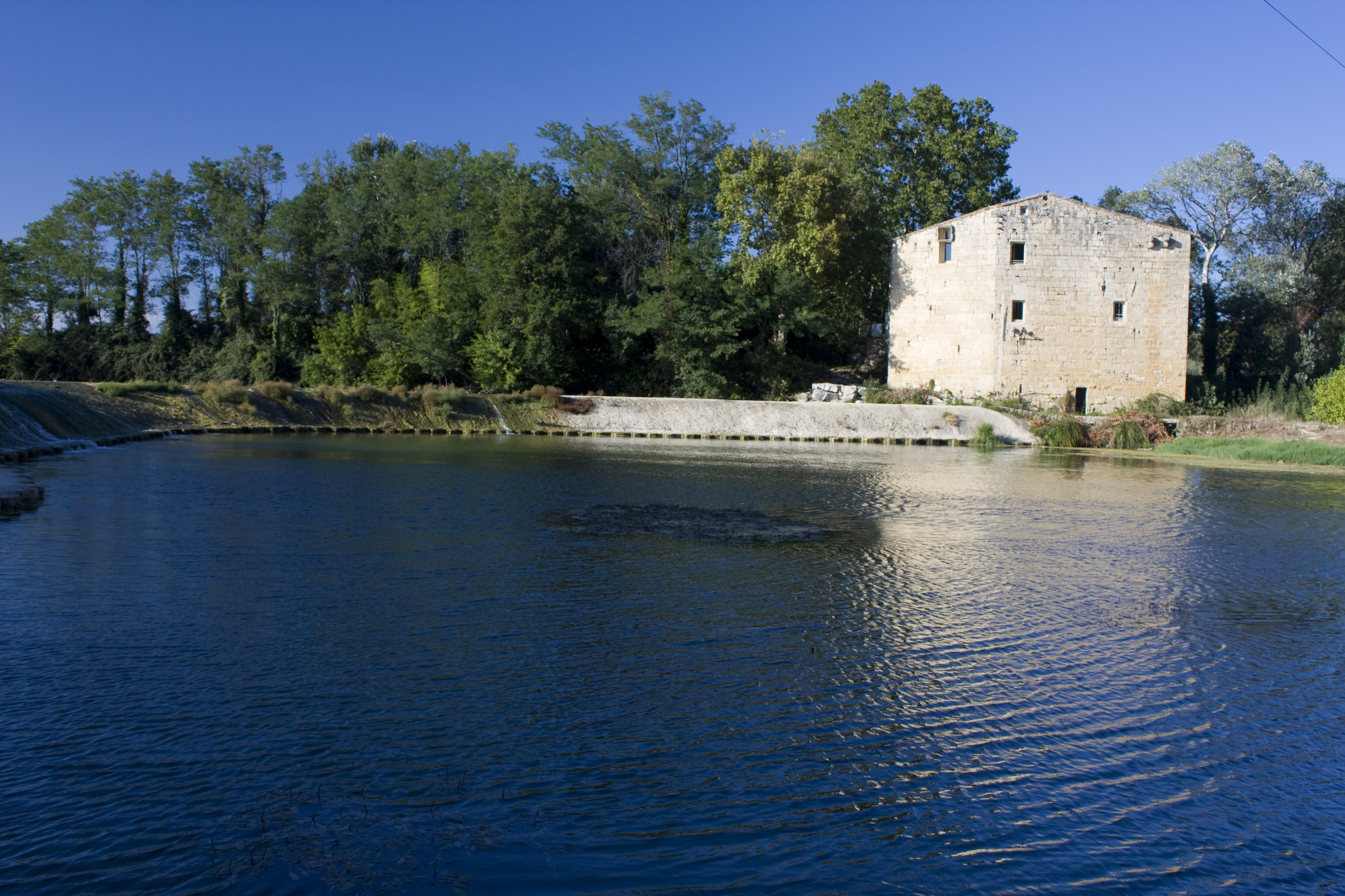 Carrière's fortified water mill, View from the right bank of the Vidourle river.